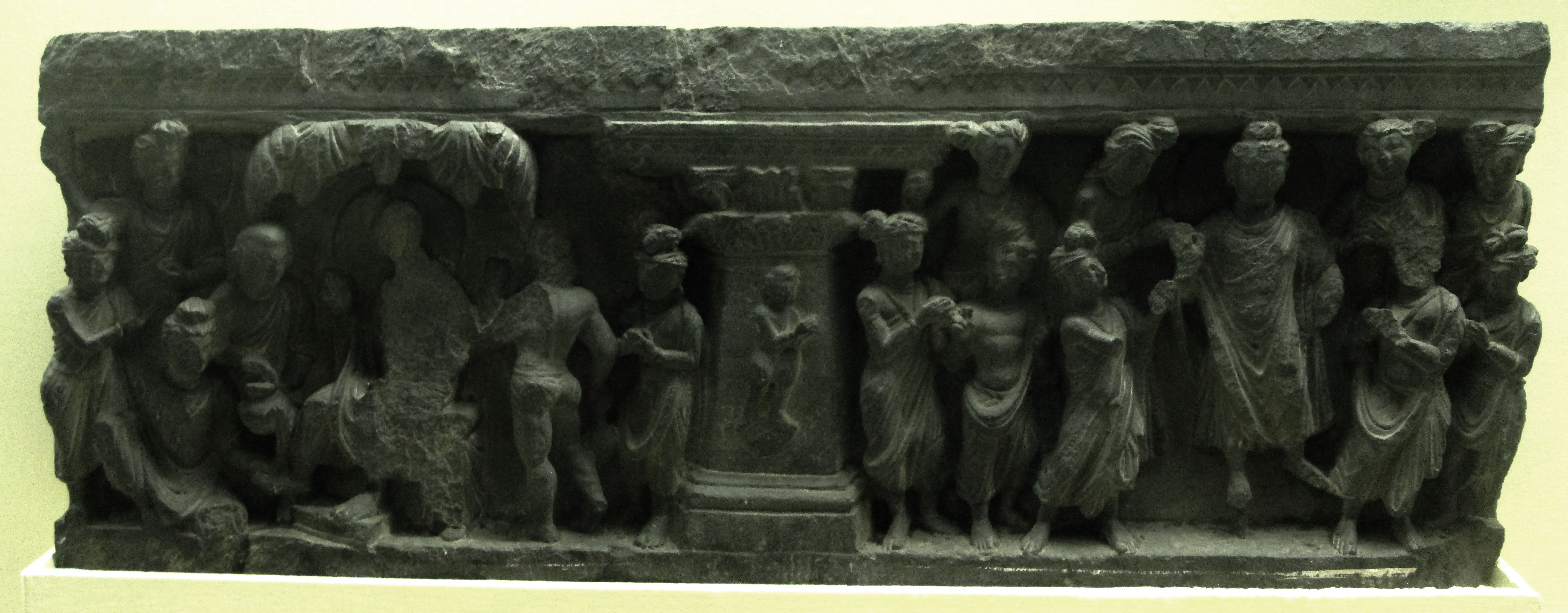 046 Ordination of Rahula, Jamalgarhi, at the Indian Museum, Kolkata Photograph from the Indian Museum in West Bengal taken by Anandajoti.